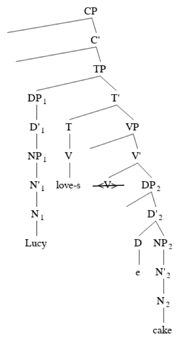 Lucy loves cake